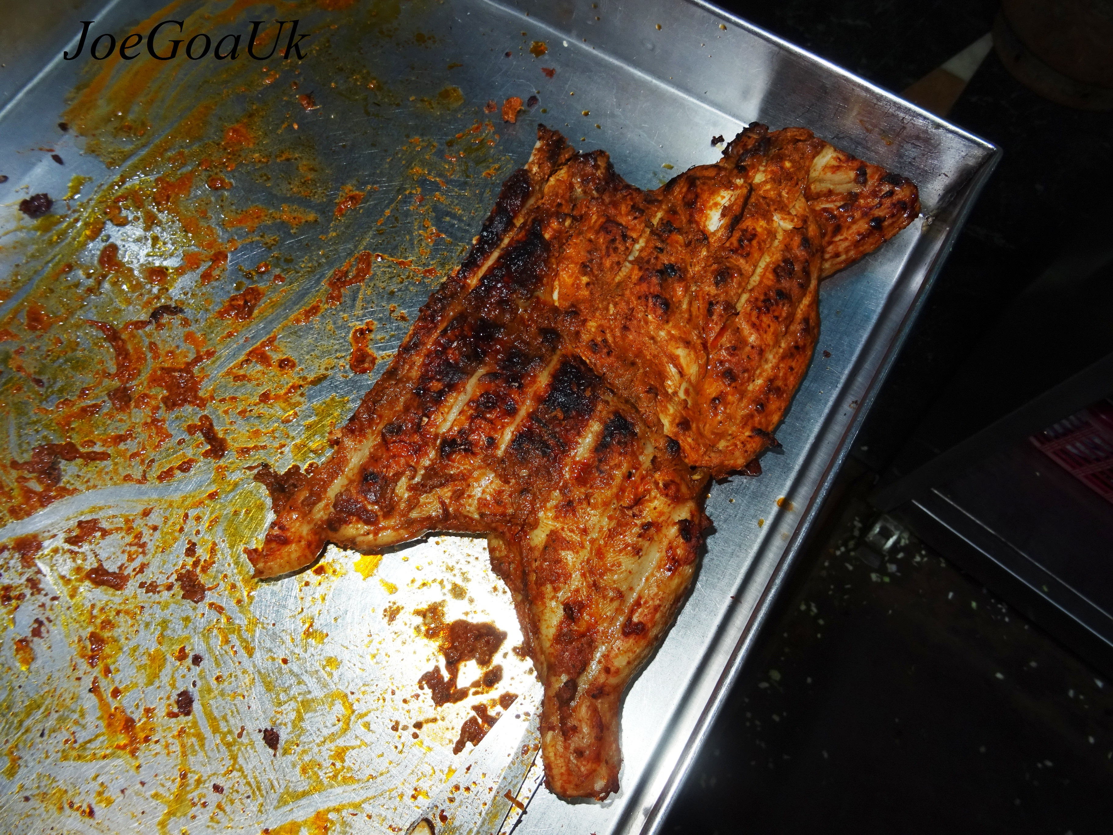 Chicken half Rs.180 come with two pita bread and sauces, salad Al faham grilled. half cooked Mutto Husna El Dorado Plaza, Panaji Market